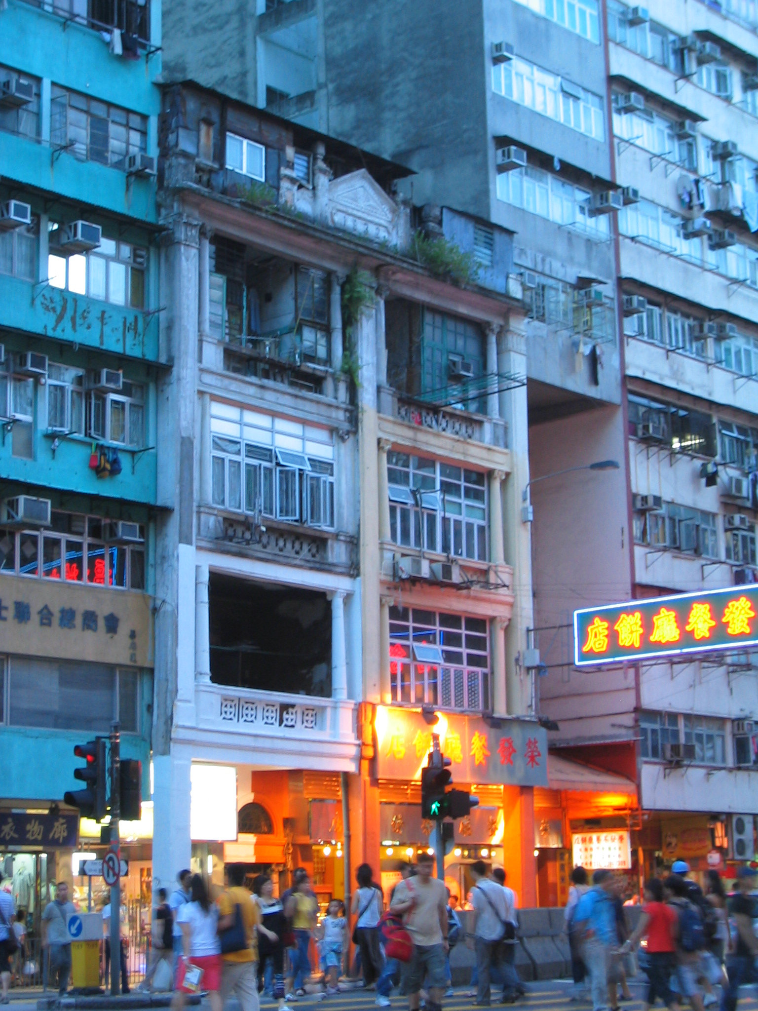 Photo taken and uploaded by C.M. Wong. This building is located in Shamshuipo, Kowloon, Hongkong. It was built in 1932, and the year of construction was engraved on the wall of the building. It currently accommodates a "tea cafe" on the ground floor. The current use of the floors above is unclear but it is assumed that they are occupied in residential purpose.